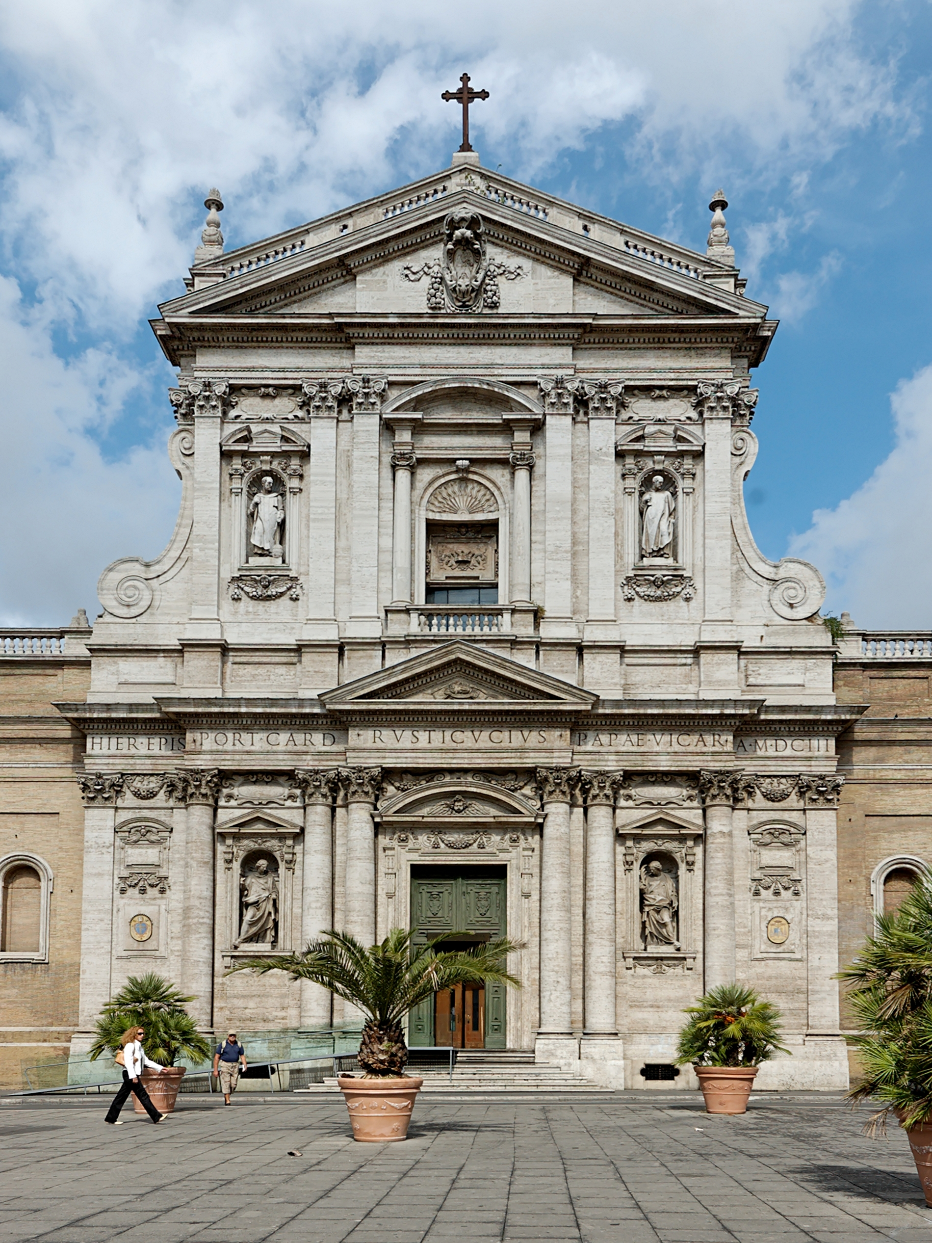 Façade of the church Santa Susanna by Carlo Maderno (1603). Via XX Settembre in Rome.